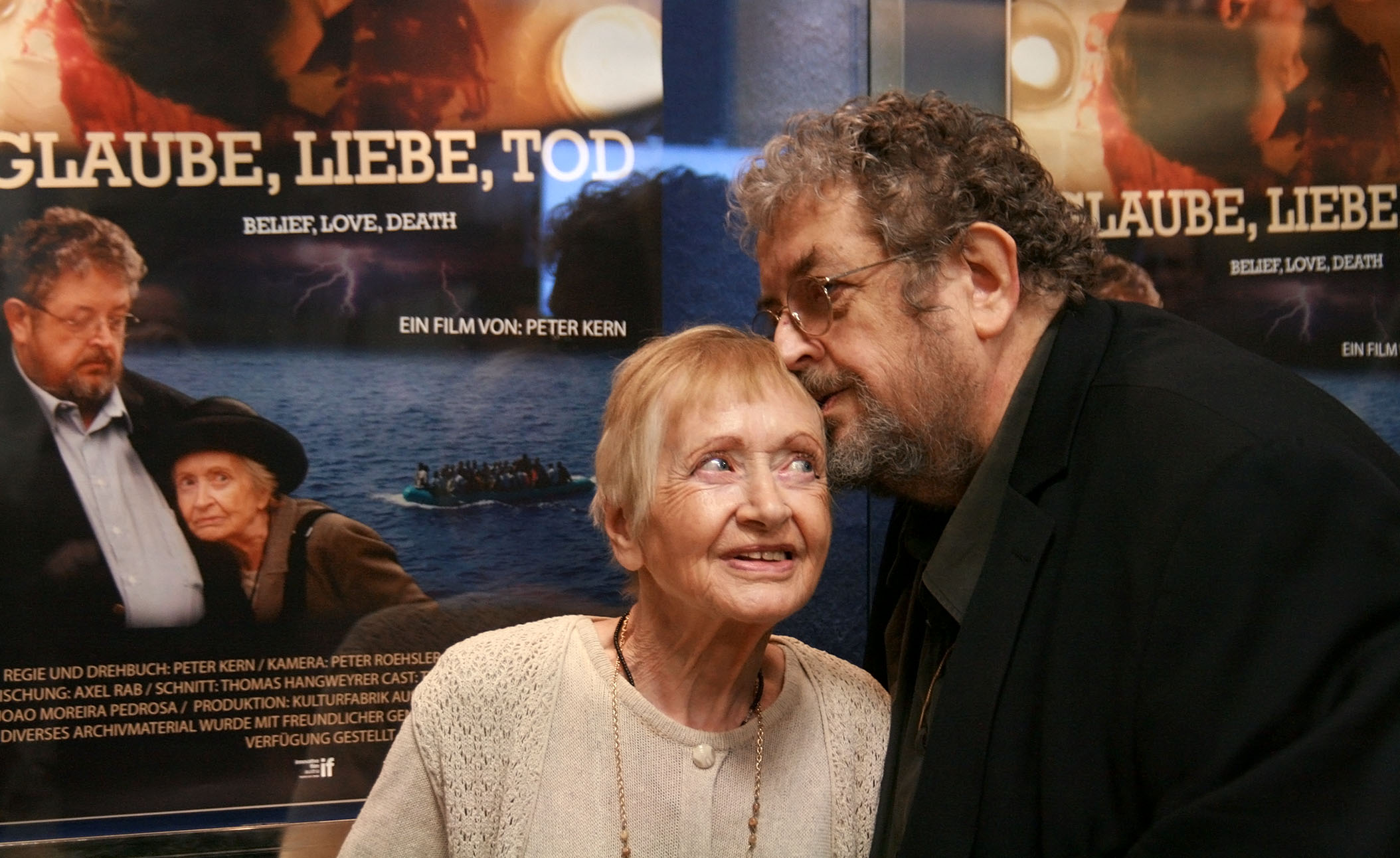 Traute Furthner and Peter Kern at the Austrian premiere of Belief, Love, Death (Glaube, Liebe, Tod) at Gartenbaukino in Vienna, Austria.